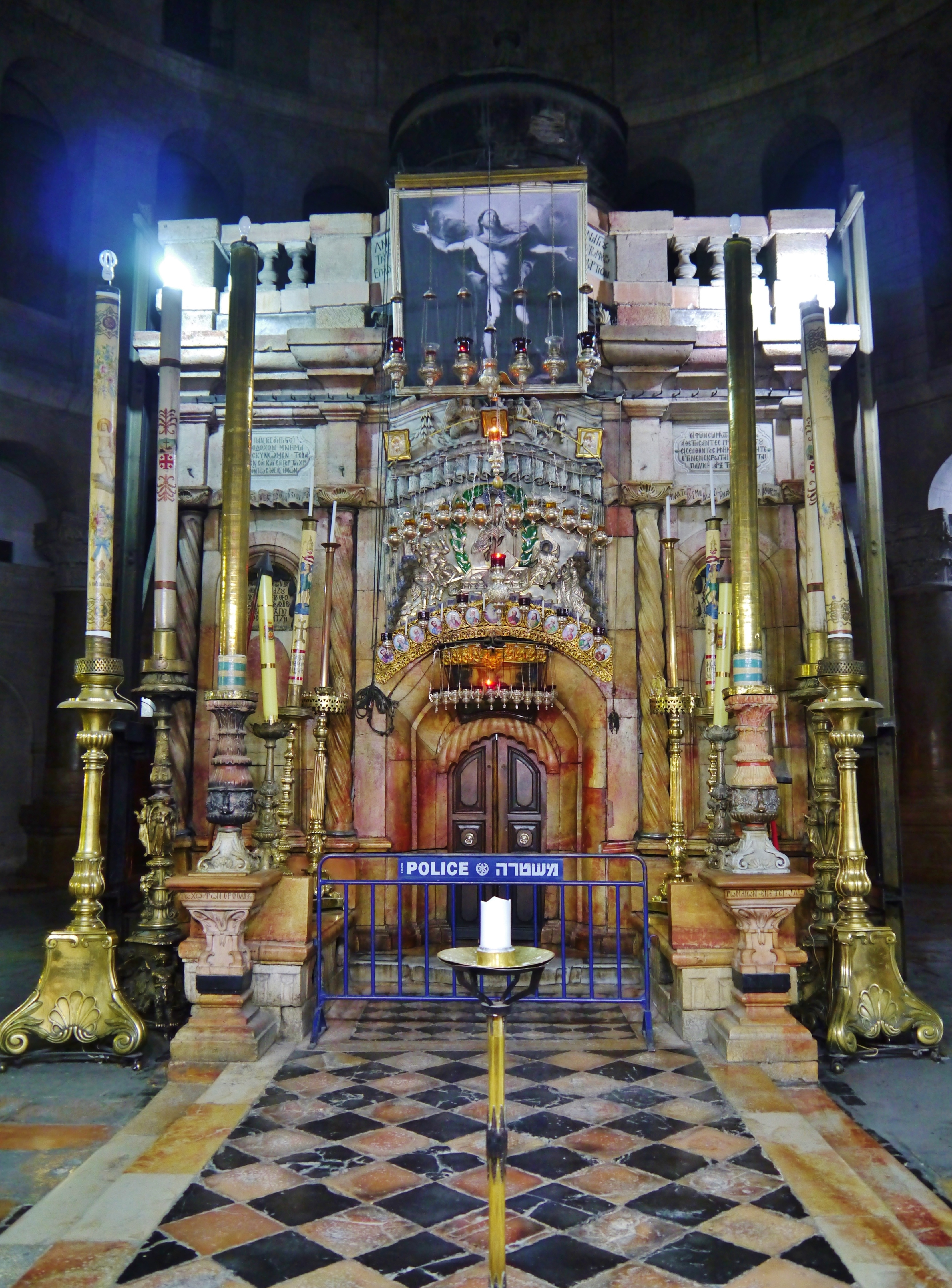 14th Station, Jesus is laid in the tomb, the Church of the Holy Sepulchre, Jerusalem, Israel